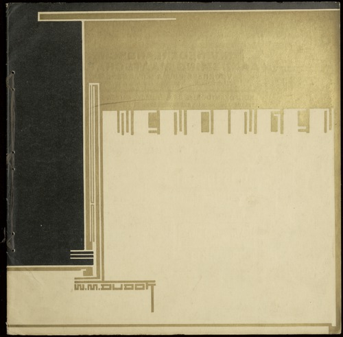 Cover of Dutch magazine Wendingen, 1928 (1). Volume about architect Willem Dudok. Design by Hendrik Wouda.